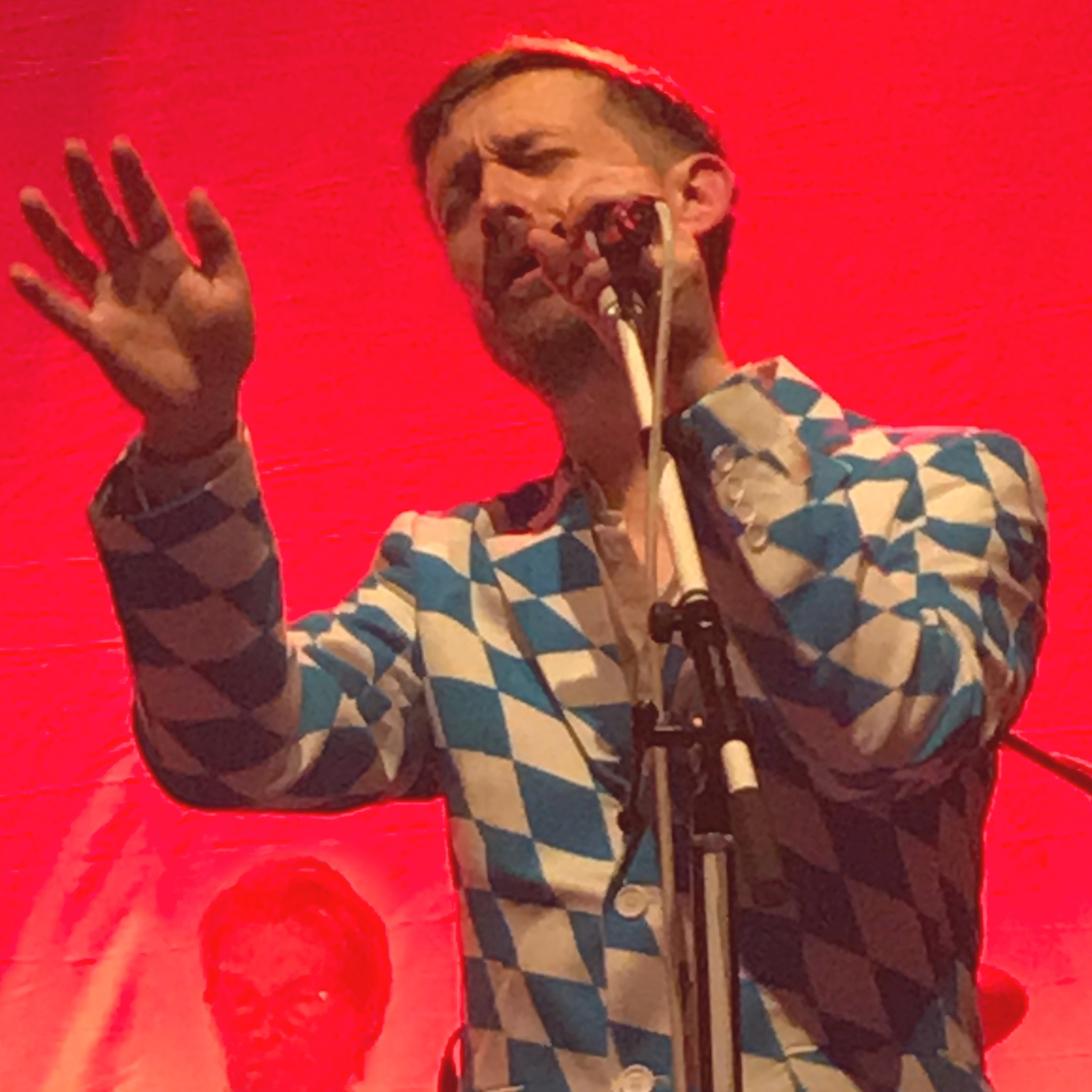 A photograph of Neil Hannon performing with The Divine Comedy at the O2 Academy Bristol, 14 October 2014.